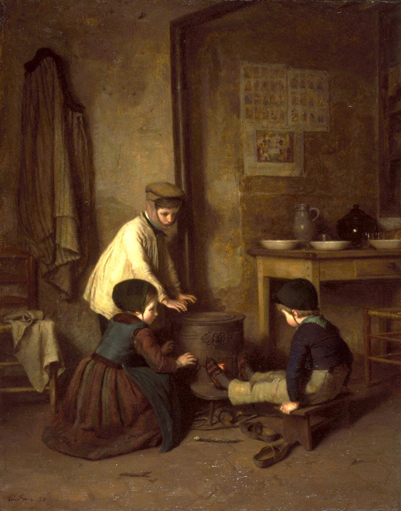 Frère specialized in sentimental scenes of childhood. Thanks to the complimentary reviews of the English critic John Ruskin and the promotional efforts of his dealer Ernest Gambart, he enjoyed phenomenal international success during the mid 19th century. He established an artists' colony in Ecouen, a village located 8 miles north of Paris, that attracted both French and foreign visitors, including the American Mary Cassatt and the Anglo-American George H. Boughton.